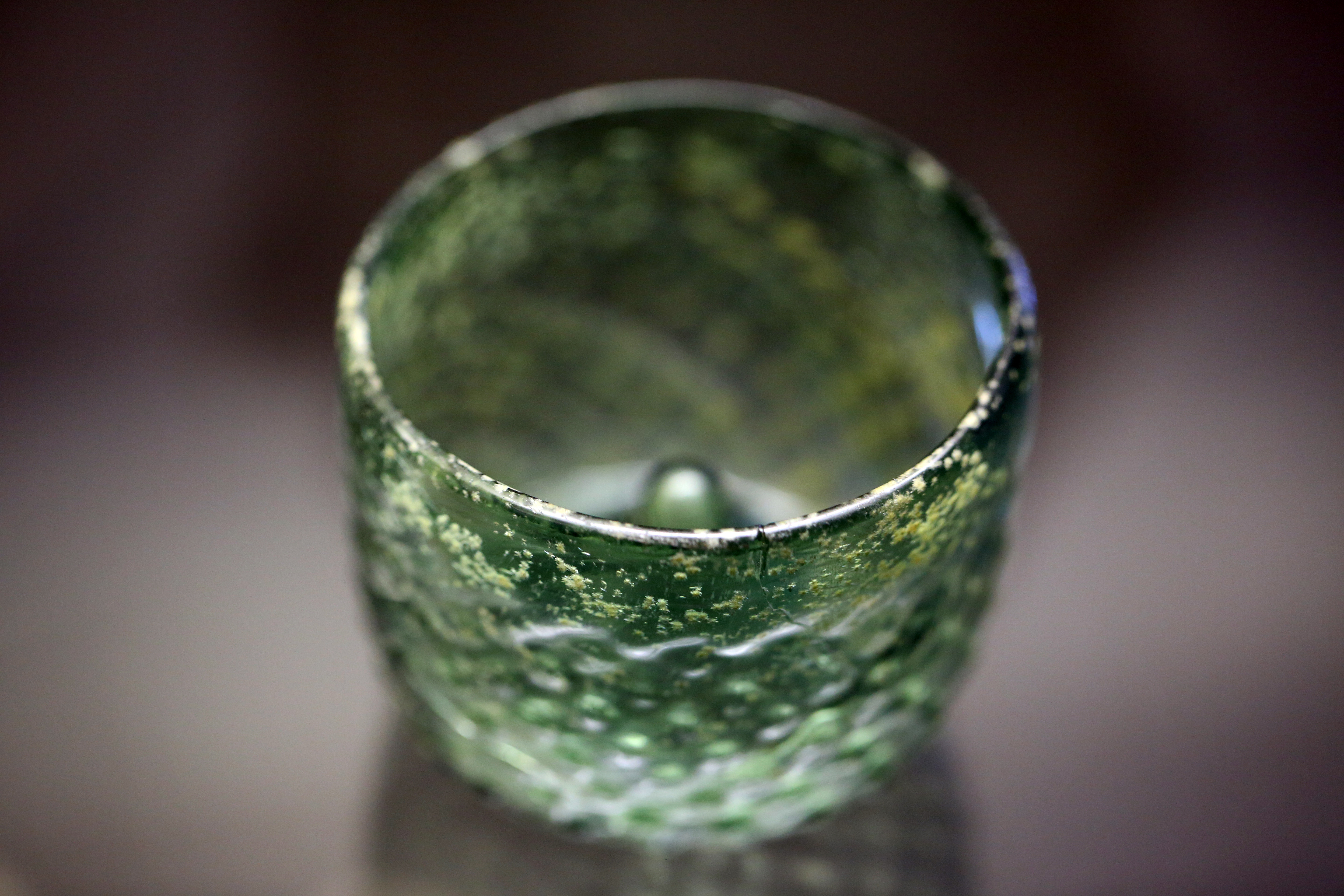 The Maigelein, was a medieval drinking bowl. Permanent exhibition Kölnisches Stadtmuseum, in Cologne